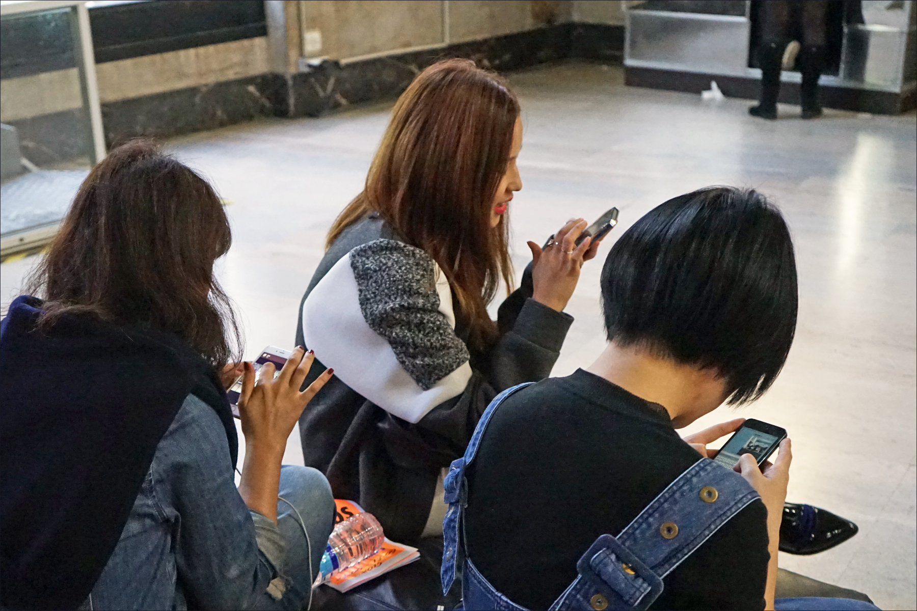 Three visitors using their smartphones, at an exhibition in the Palais de Tokyo (Paris).